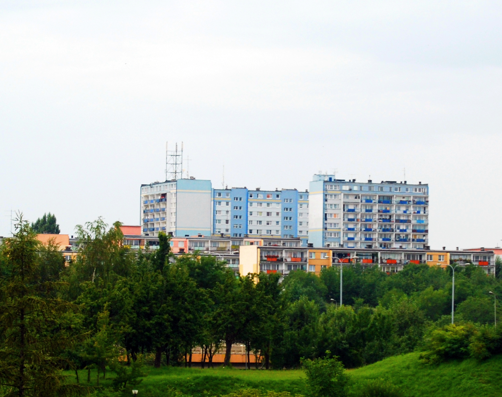 Osiedle Władysława Łokietka